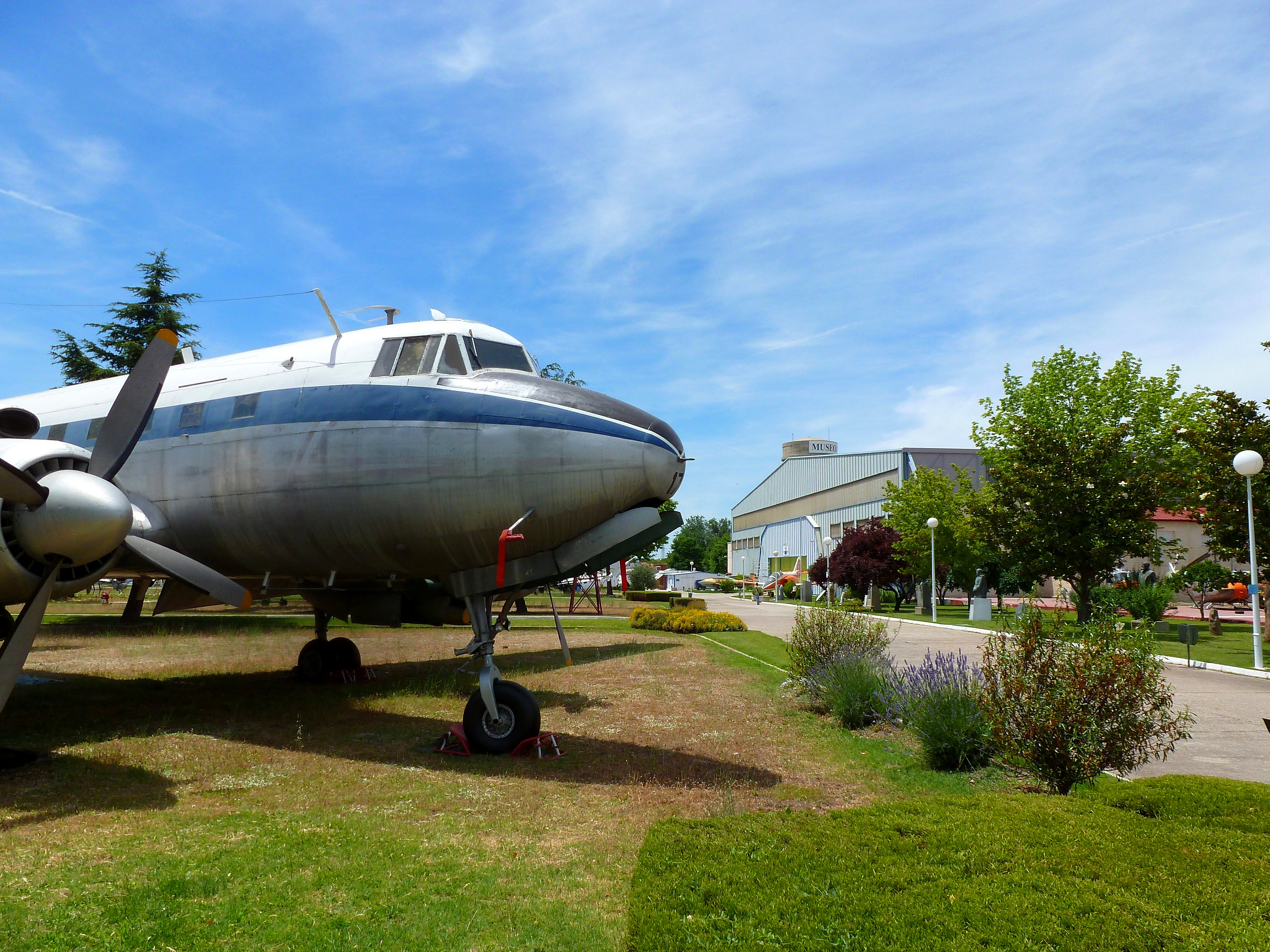 Panorama of the Cuatro Vientos Air Museum, Madrid, Spain.